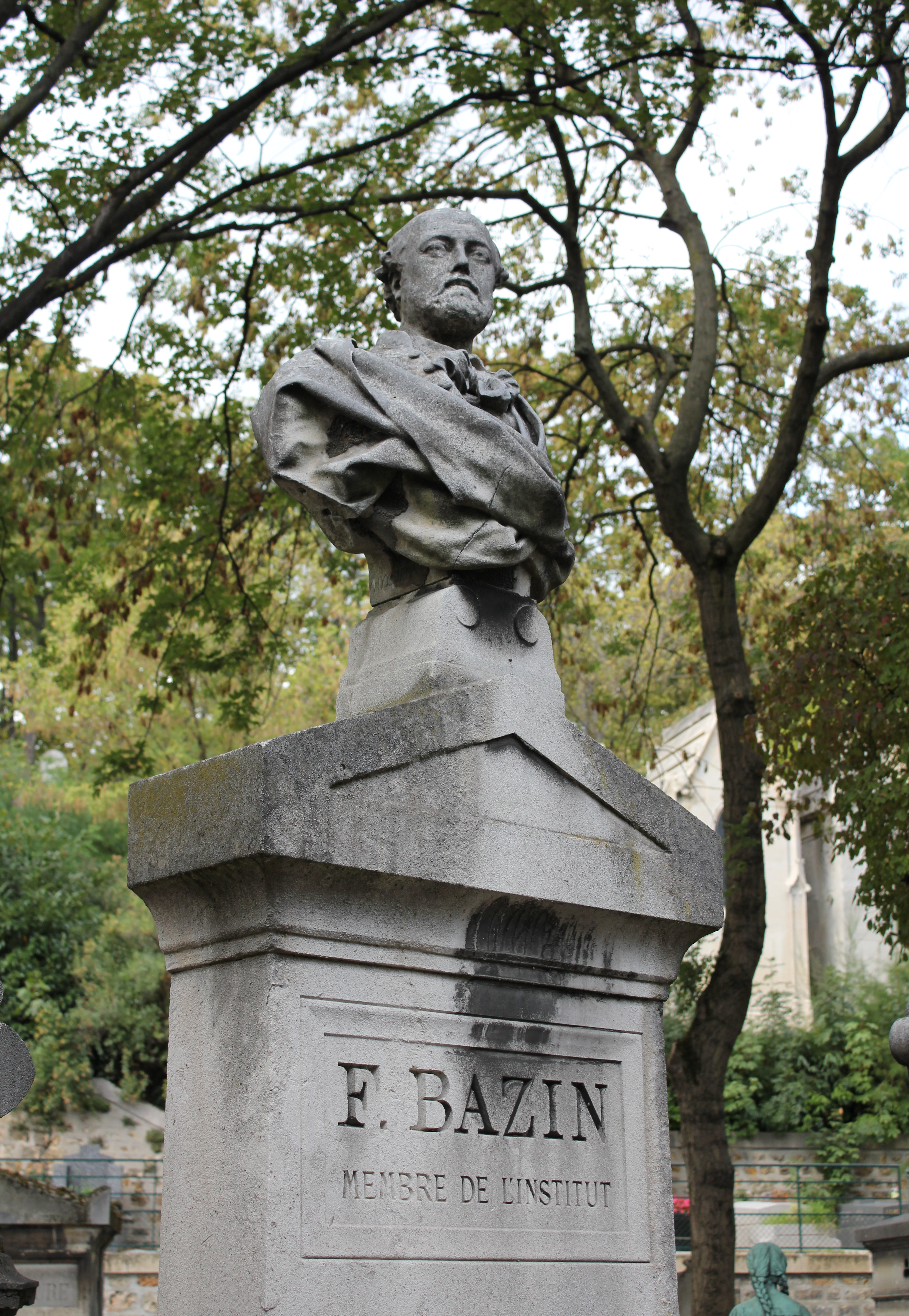 François Bazin's tombstone in Père Lachaise Cemetery, in Paris.